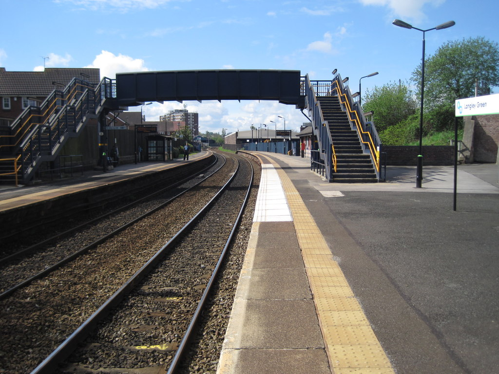 Opened in 1885 by the Great Western Railway on the line from Birmingham Snow Hill to Stourbridge. View south towards Rowley Regis and Stourbridge. Just out of view to the right is the former branch line platform to Oldbury Town.